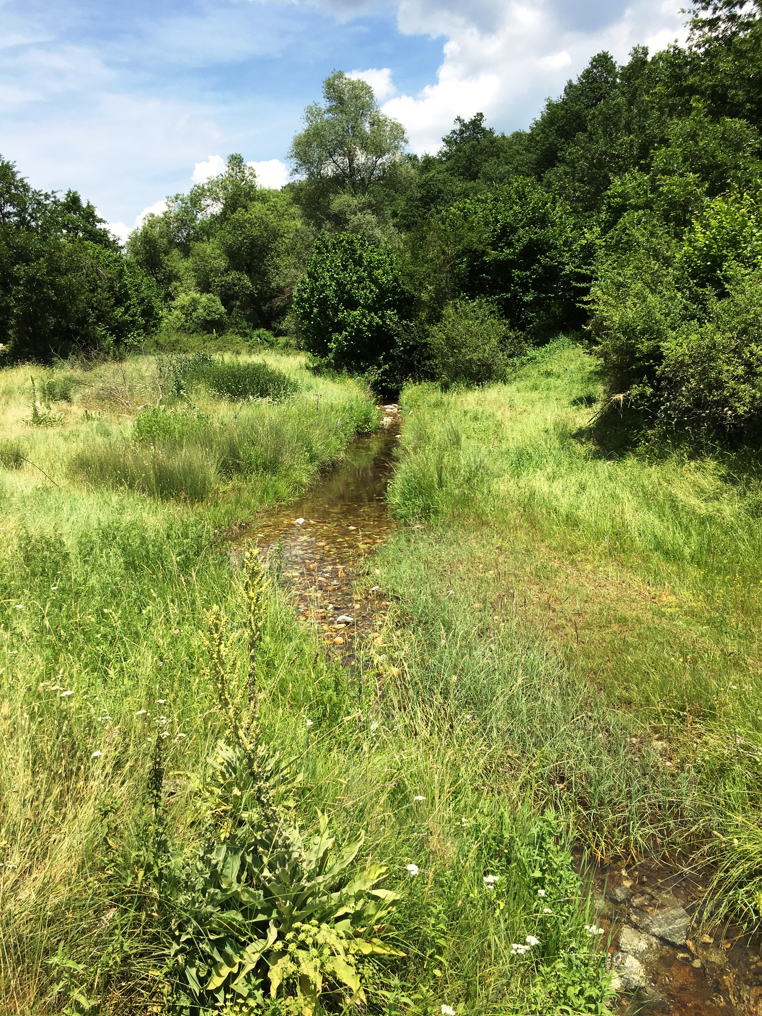 Krapa River flowing near the eponymous village